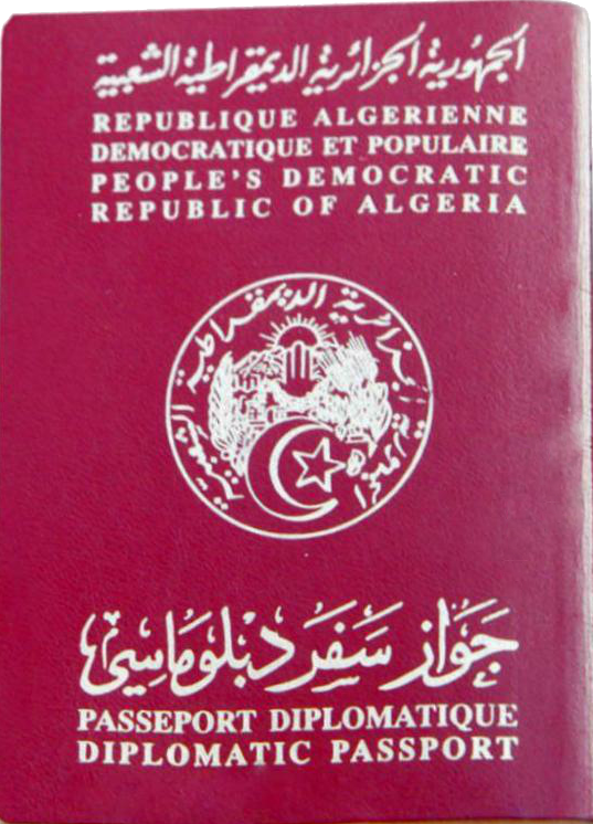 Diplomatic passport of Algeria